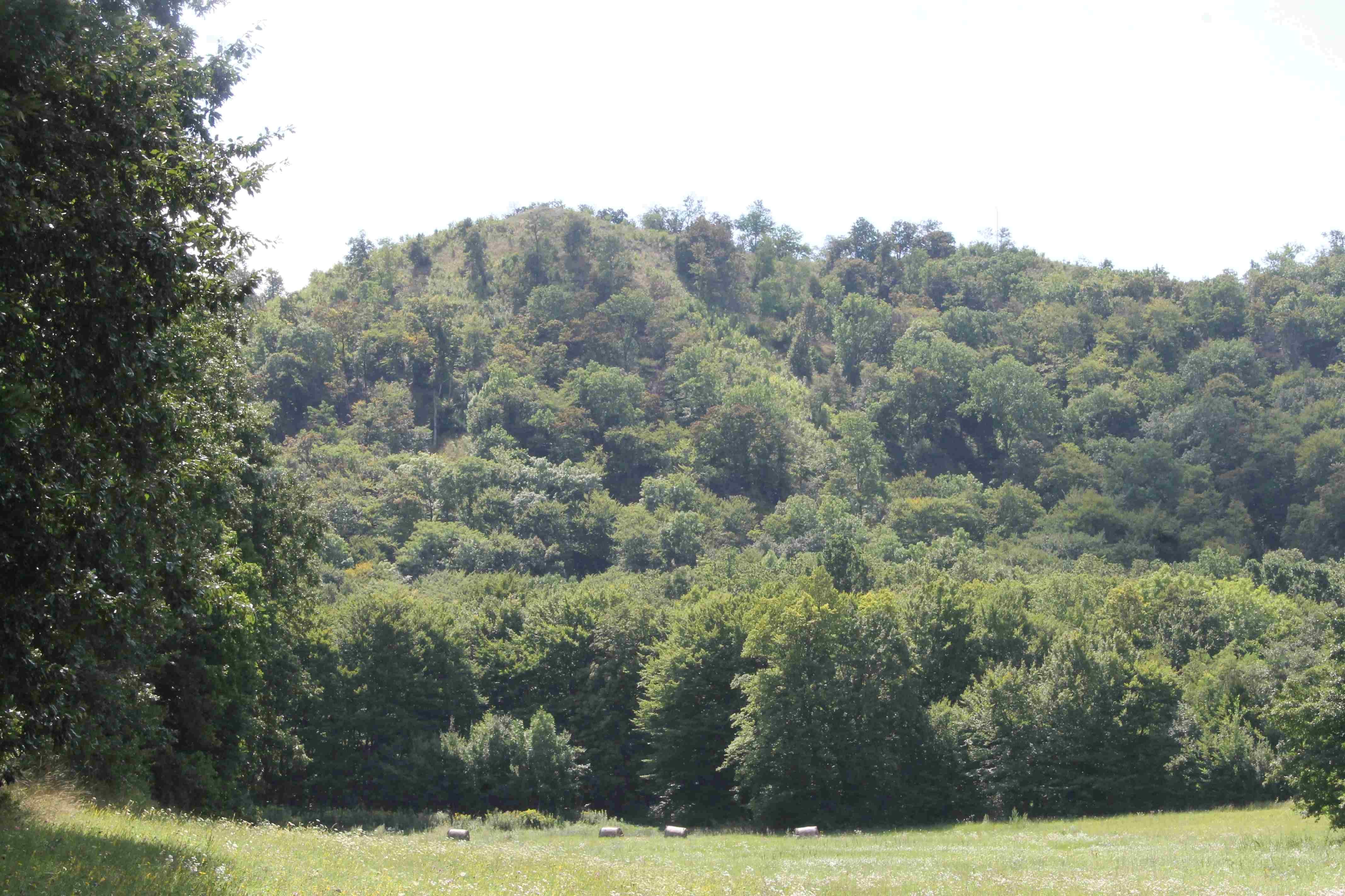 Piliscsaba felől nézve